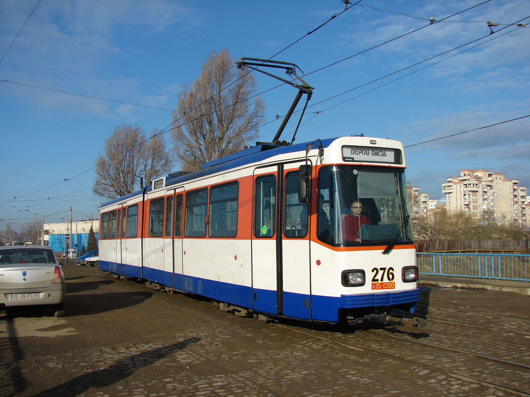 Iasi tram 276 at Dacia depot (carhouse) in 2008. Car 276 is ex-Darmstadt 7604, a type ST10 tram built in 1977 by Waggon Union (of Berlin) and acquired secondhand by Iasi in 2007.